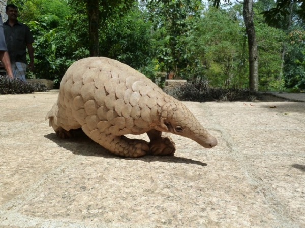 Indian Pangolin (Manis crassicaudata) in Kandy, Sri Lanka